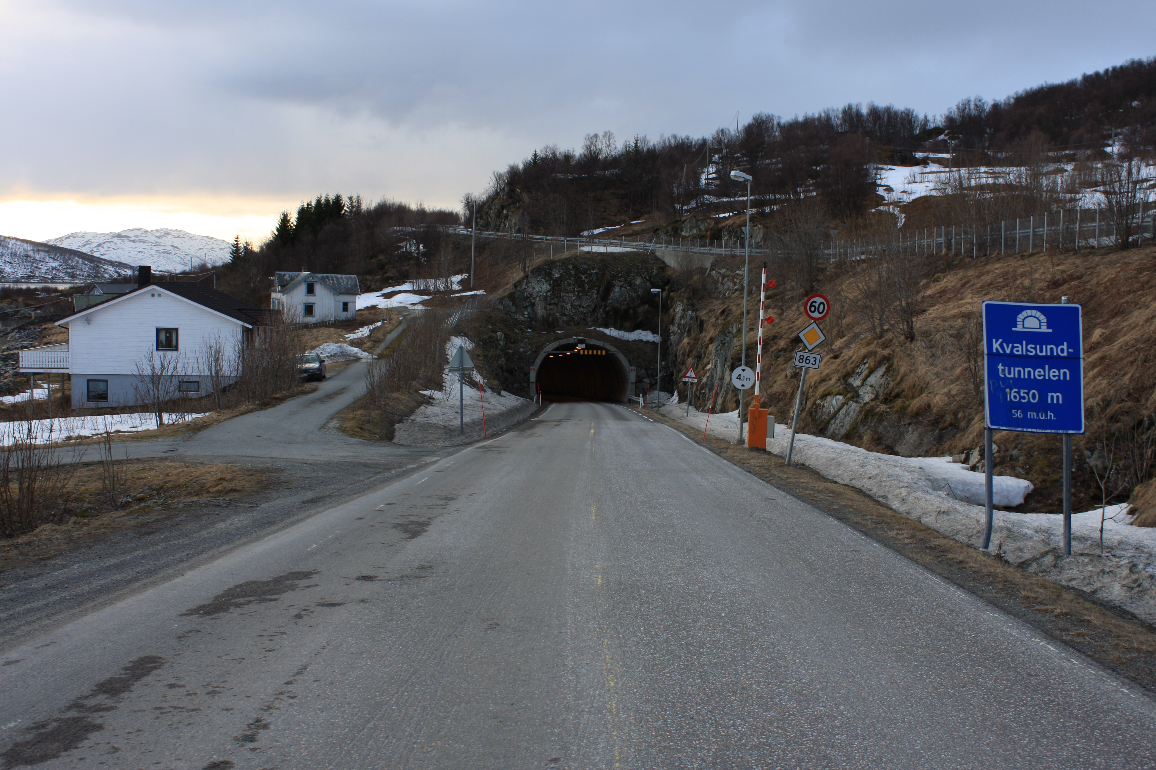 The entrance to Kvalsundtunnelen (Undersea road tunnel) on Ringvassøya (island) in Troms county (fylke), Norway.